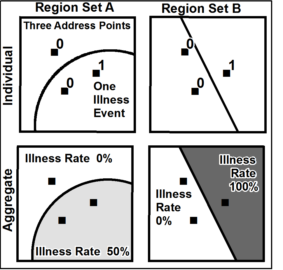 Simple summary of MAUP issue for illness rate calculation.